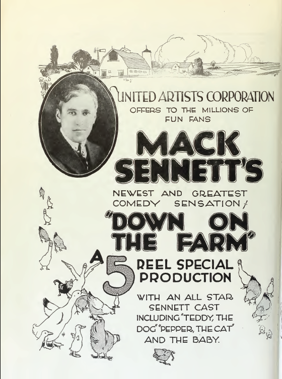 Ad for Down on the Farm (1920), a film directed by Mack Sennet.